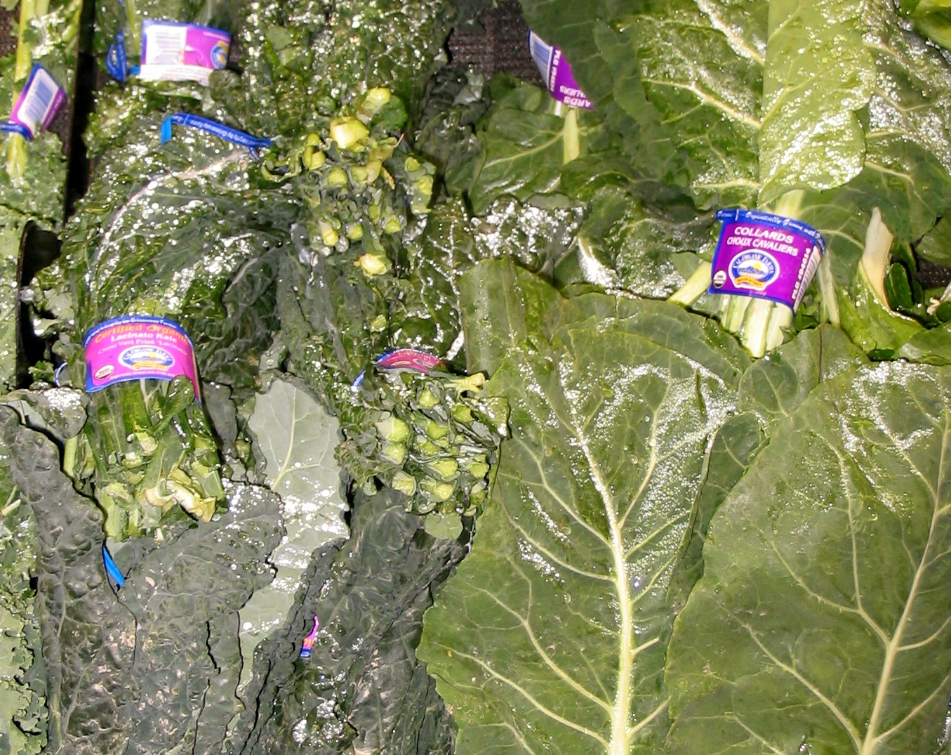 Lacinato Kale (left) and Collard Greens (right)